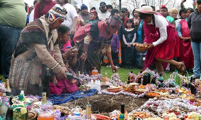 This photo has been taken in the country: Argentina